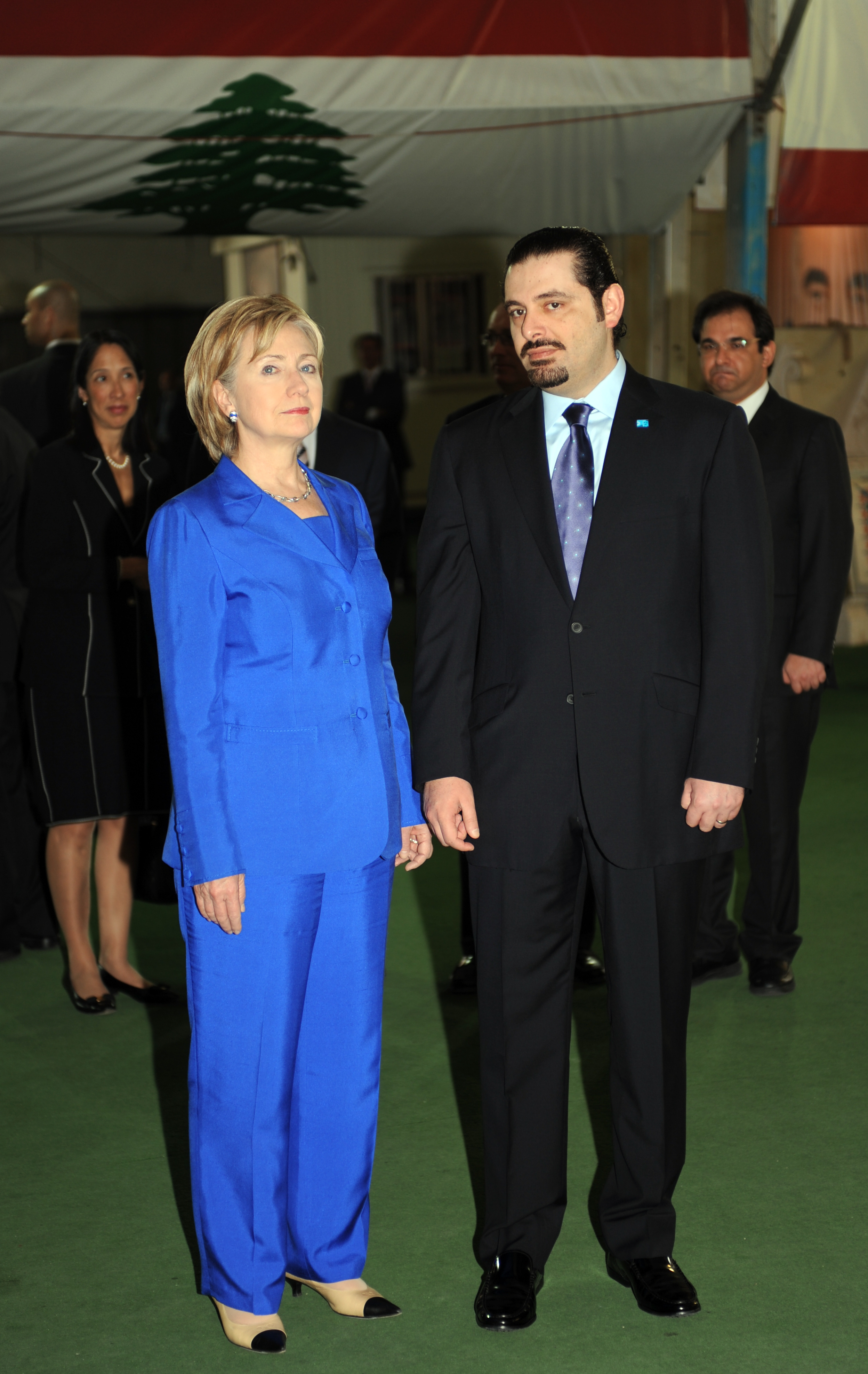 U.S. Secretary of State Hillary Rodham Clinton with Saad Hariri while departing from the gravesite of former Lebanese Prime Minister Rafic Hariri in Beirut, Lebanon April 26, 2009. [State Department photo]